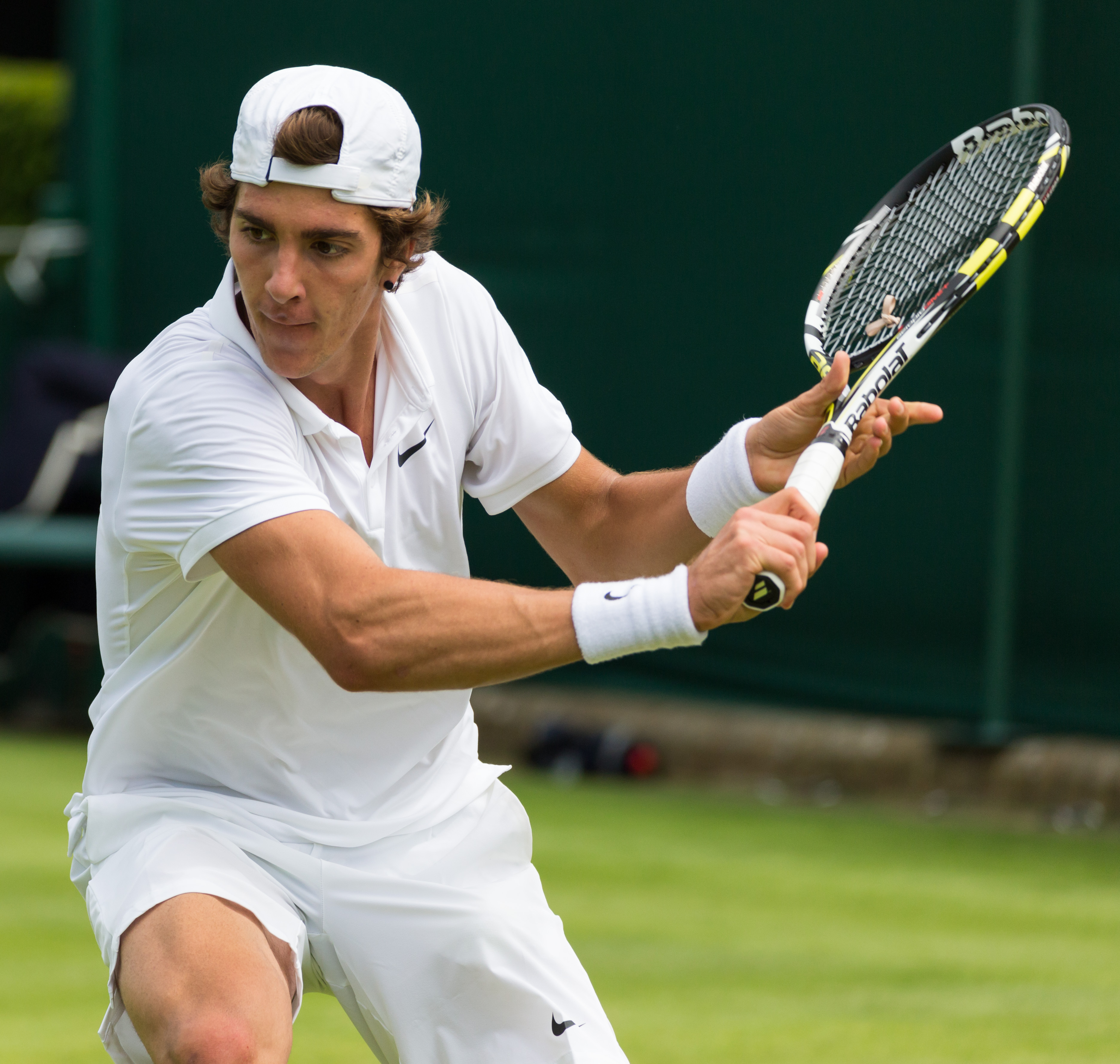 Thanasi Kokkinakis competing in the first round of the 2015 Wimbledon Championships.